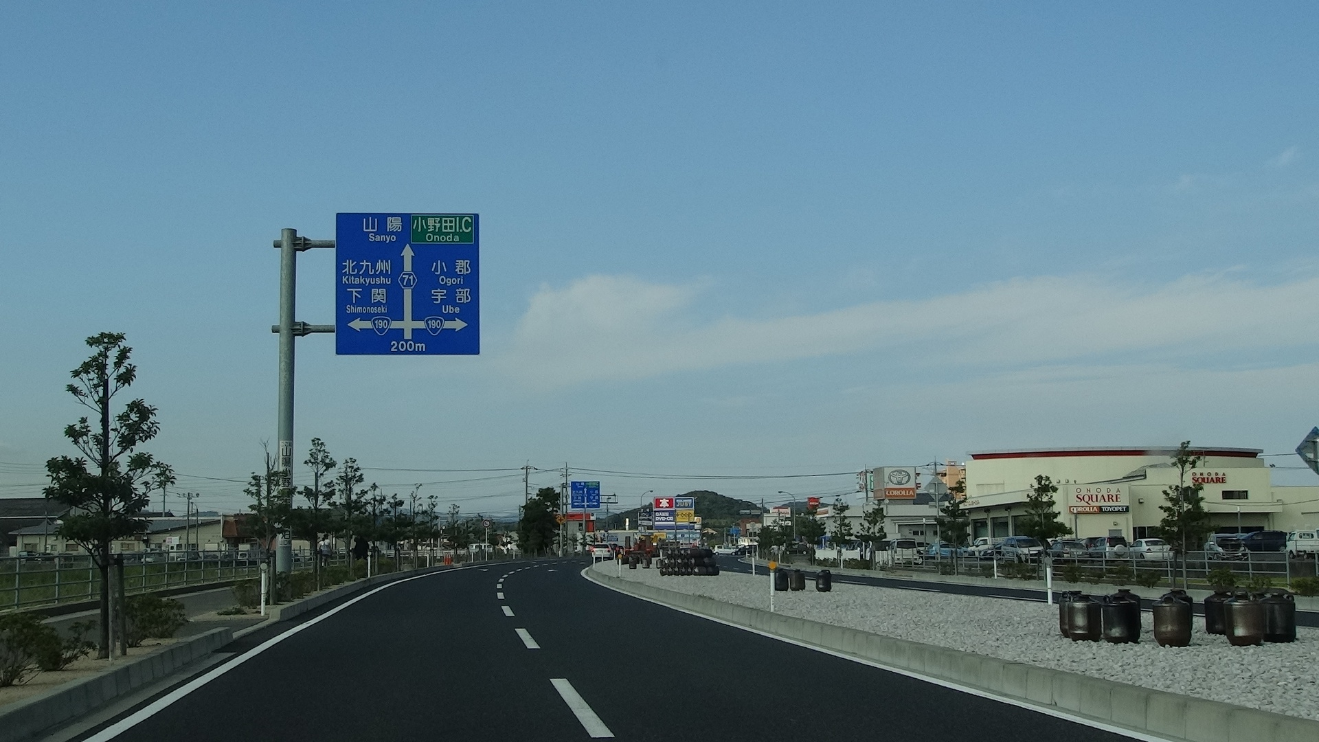 Yamaguchi Prefectural Road No.354 Tsumazaki-kaisaku - Onoda Line (Sanyo-Onoda City, Yamaguchi Japan)